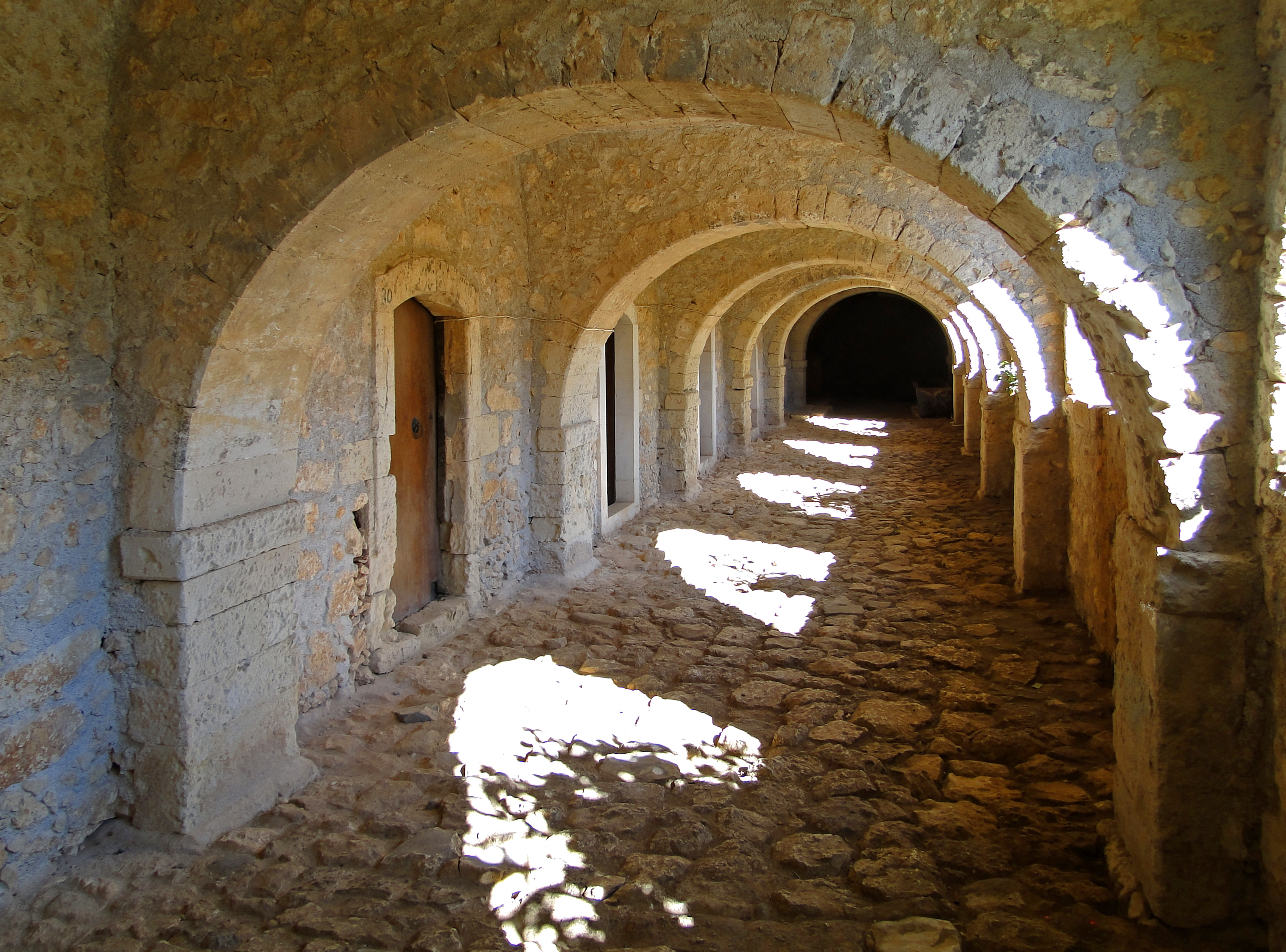 Cloister of the Arkadi Monastery, Crete, Greece